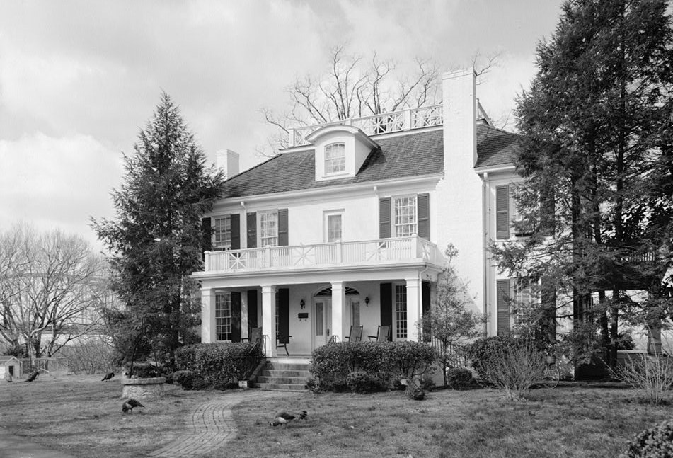 East front of Cherry Mansion, 101 Main Street, Savannah (Hardin County, Tennessee) cropped This file comes from the Historic American Buildings Survey (HABS), Historic American Engineering Record (HAER) or Historic American Landscapes Survey (HALS). These are programs of the National Park Service established for the purpose of documenting historic places. Records consist of measured drawings, archival photographs, and written reports. When reusing please credit: Library of Congress, Prints & Photographs Division, TENN,36-PITLA.V,1-4 This tag does not indicate the copyright status of the attached work. A normal copyright tag is still required. See Commons:Licensing. This work is in the public domain in the United States because it is a work prepared by an officer or employee of the United States Government as part of that person’s official duties under the terms of Title 17, Chapter 1, Section 105 of the US Code. Note: This only applies to original works of the Federal Government and not to the work of any individual U.S. state, territory, commonwealth, county, municipality, or any other subdivision. This template also does not apply to postage stamp designs published by the United States Postal Service since 1978. (See § 313.6(C)(1) of Compendium of U.S. Copyright Office Practices). It also does not apply to certain US coins; see The US Mint Terms of Use. This file has been identified as being free of known restrictions under copyright law, including all related and neighboring rights. Object location35° 13′ 32″ N, 88° 15′ 24″ W